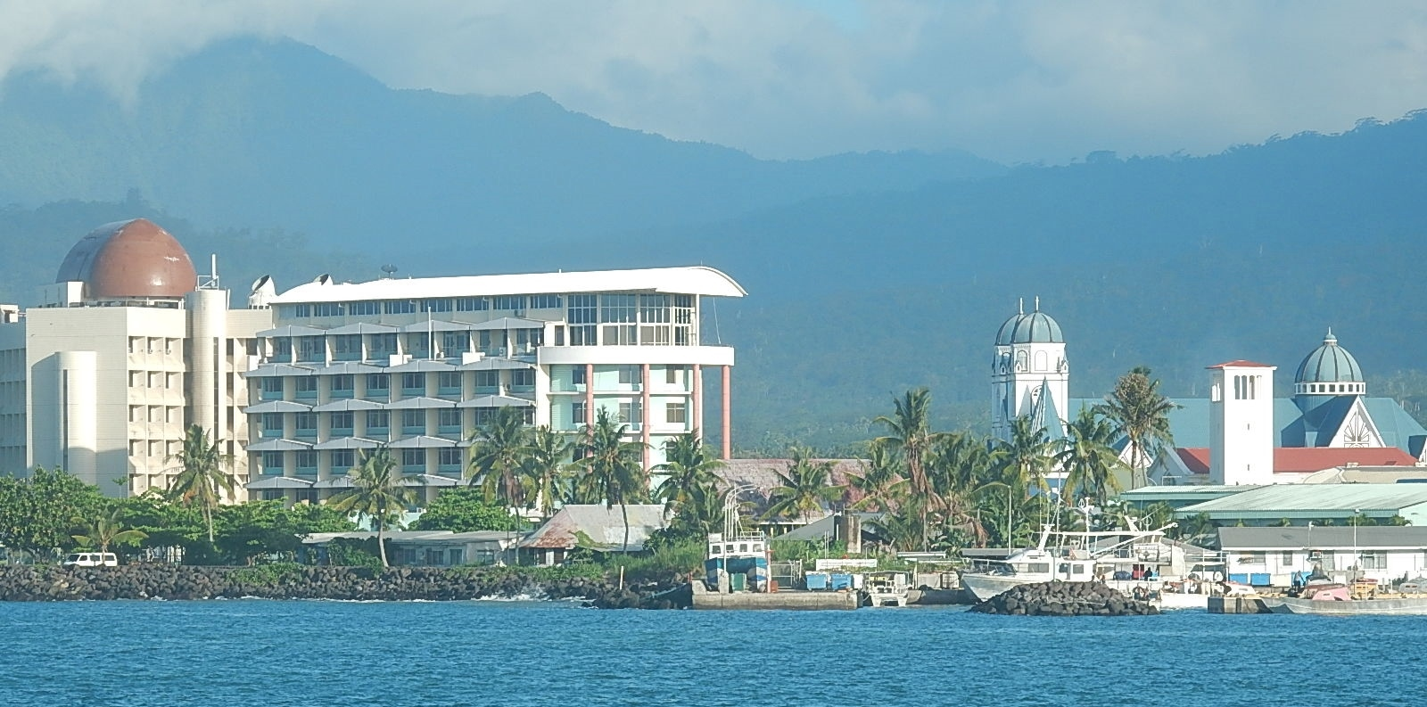 Apia Harbour View